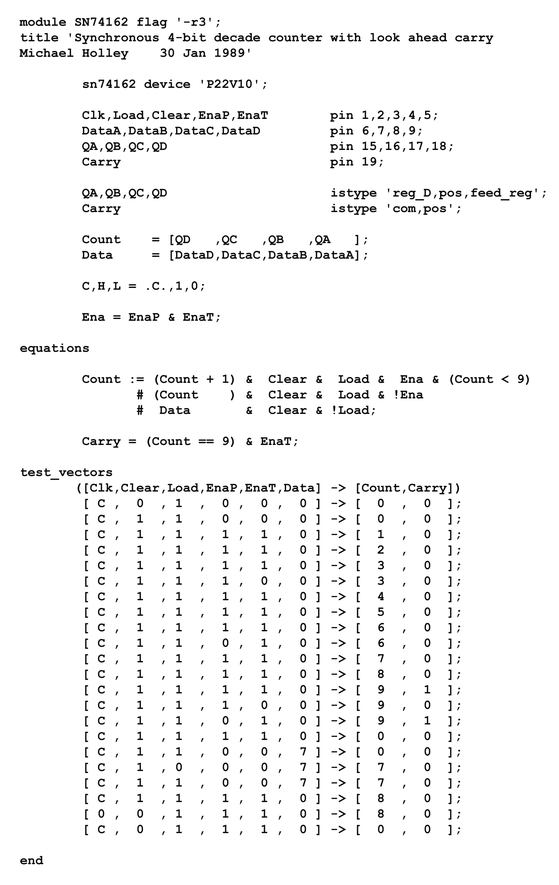 A 4-bit decade counter circuit described in the ABEL hardware description language. ABEL was introduced by Data I/O Corp in 1984 for designing programmable logic devices such as the MMI PAL. It became very popular and was extended for use with FPGAs. Xilinx acquired the software in the late 1990s and it was used until 2006.